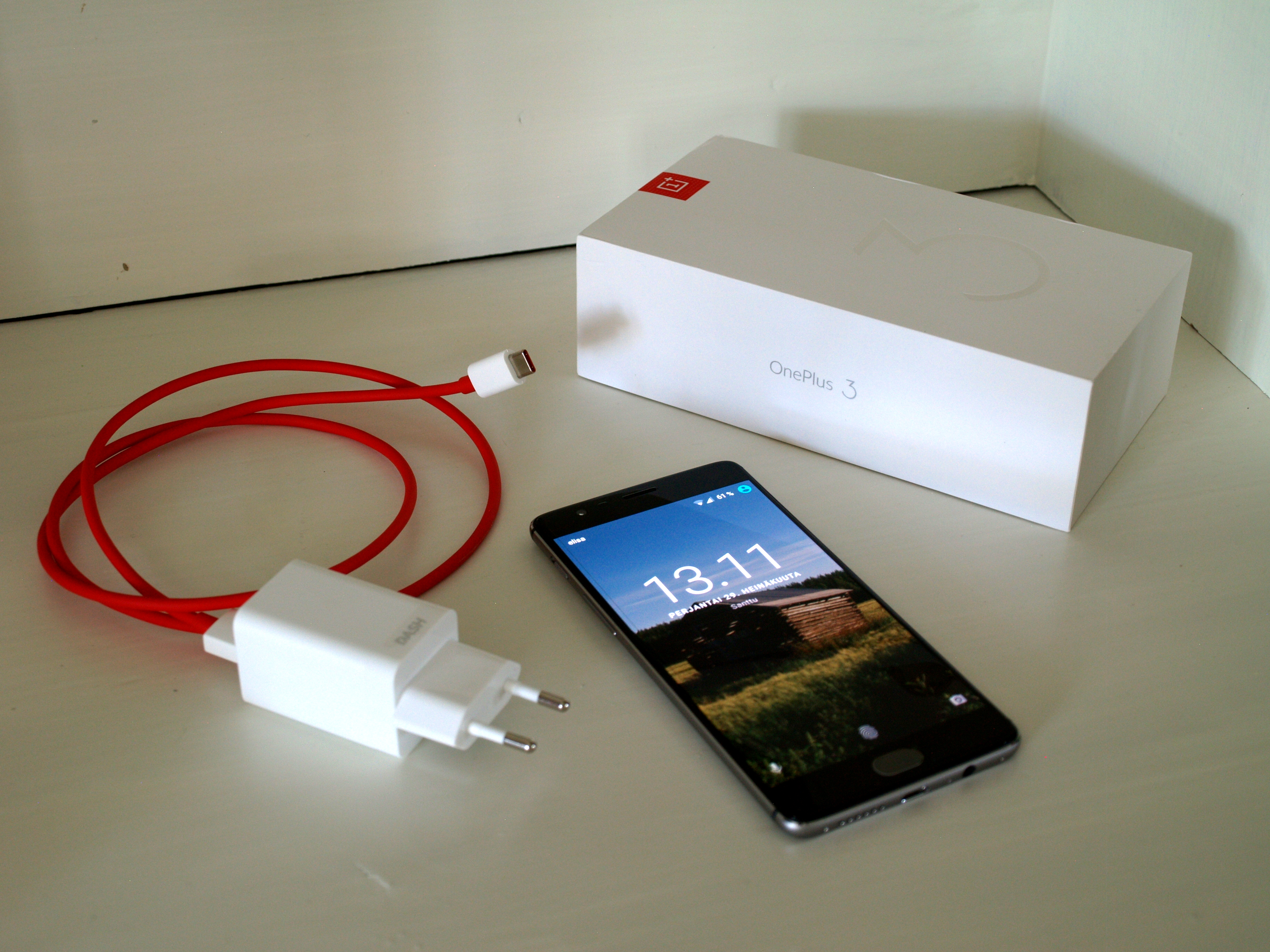 OnePlus 3 phone, charger and pacaget